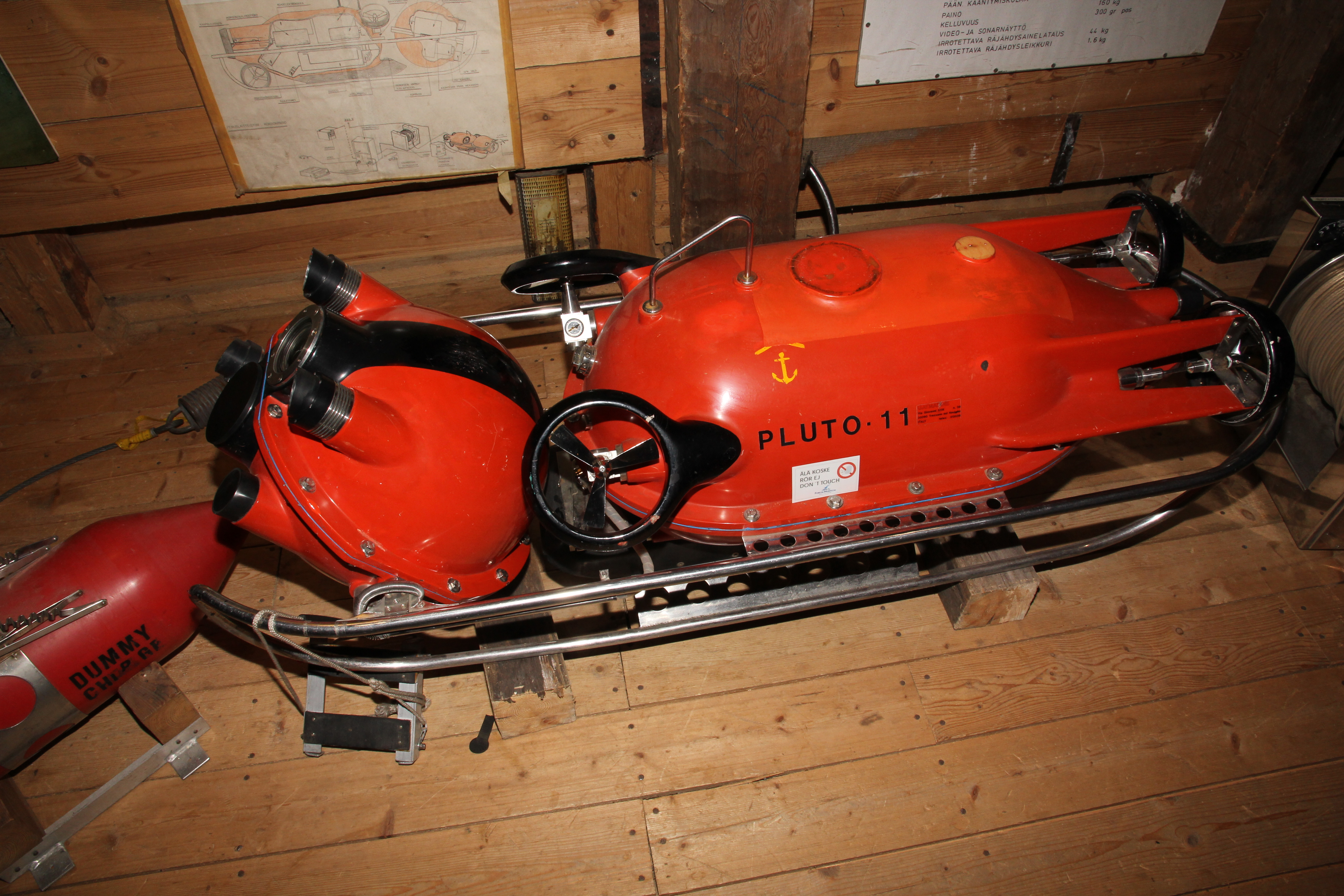 Pluto 11 remote-controlled minehunting vehicle in Forum Marinum maritime museum.